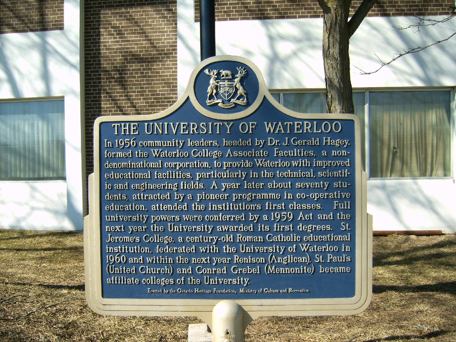 Waterloo Ontario, University of Waterloo history